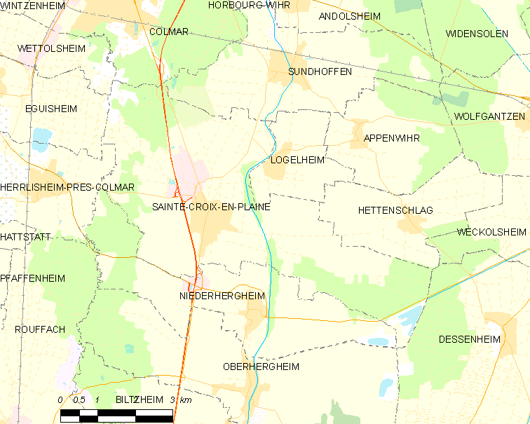 Map of French municipality